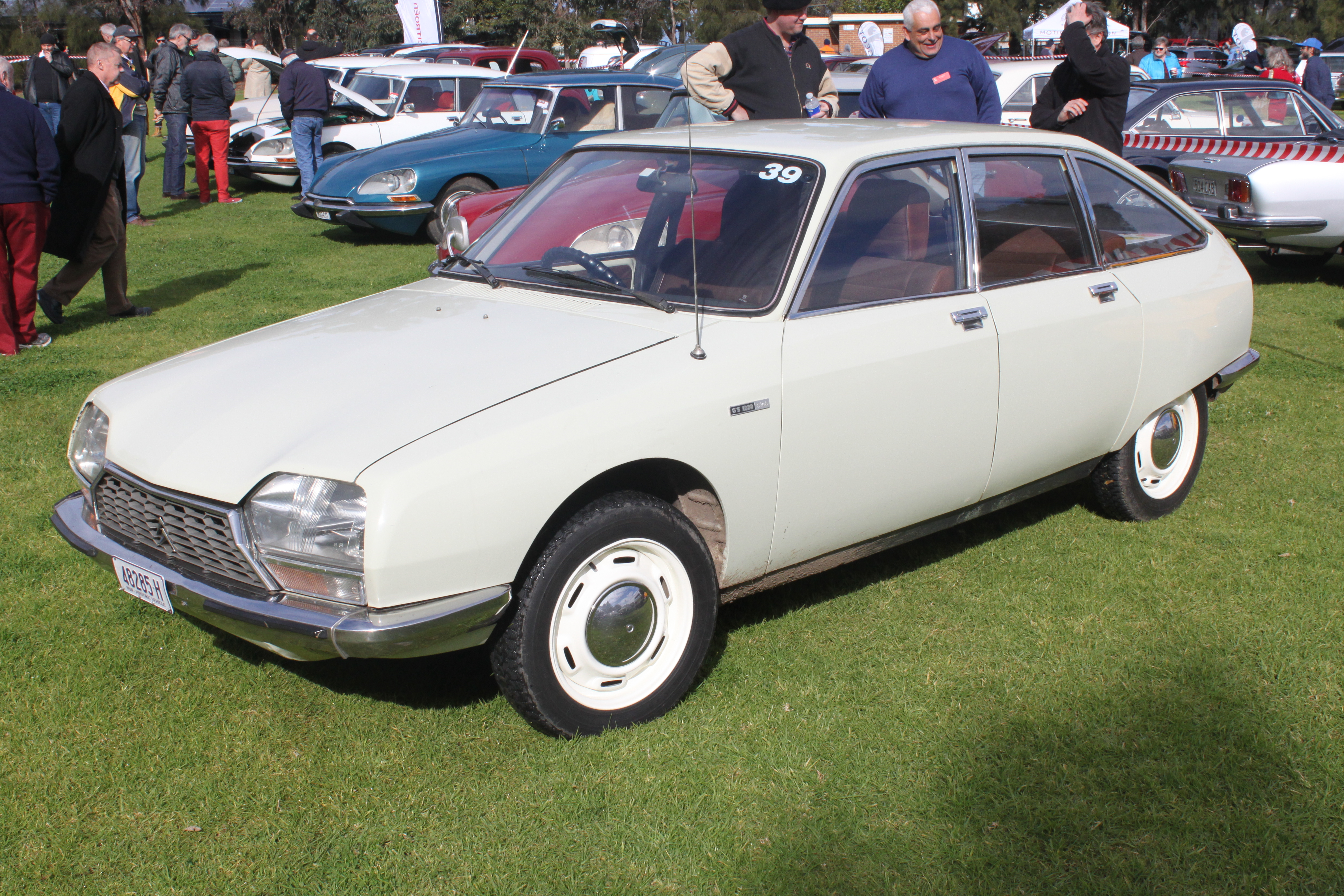 All French Day, Silverwater Park, NSW July 2015